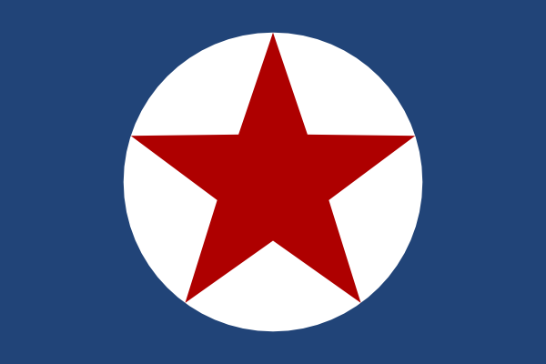 The flag of the Czechoslovak Sea Shipping company